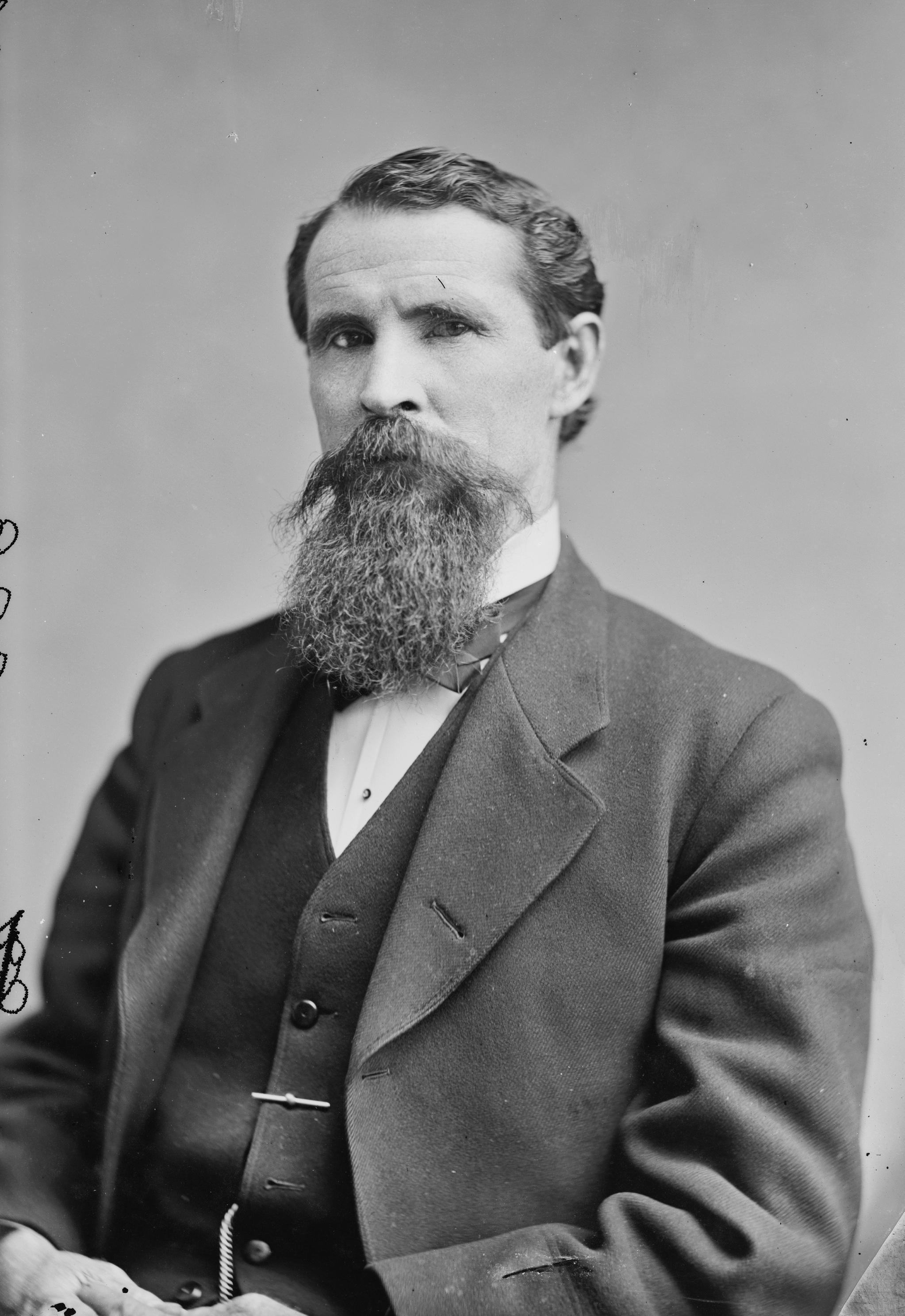 Campbell Polson Berry. Library of Congress description: "Berry, Hon. Campbell P. Rep of CAL."